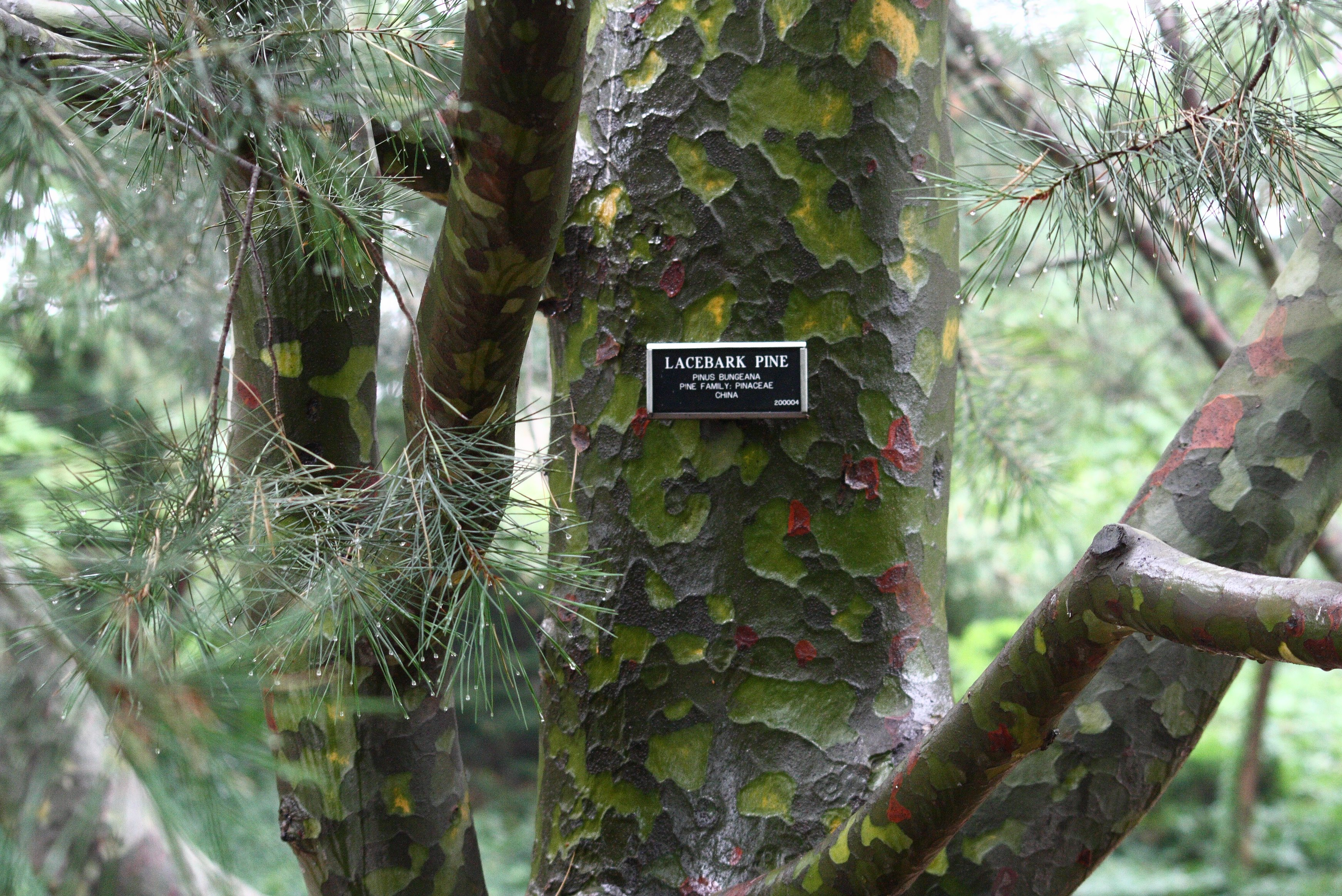 Wet bark and foliage of a Lacebark Pine (Pinus bungeana) at the Brooklyn Botanic Garden